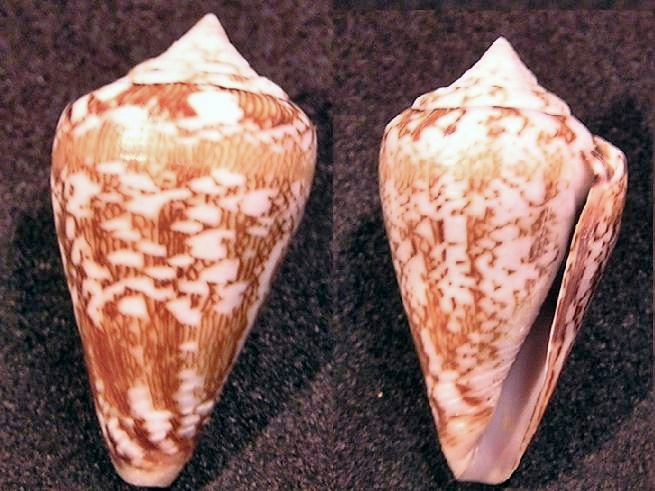 Conus damottai galeao Rolán, 1990 ; Cape Verde